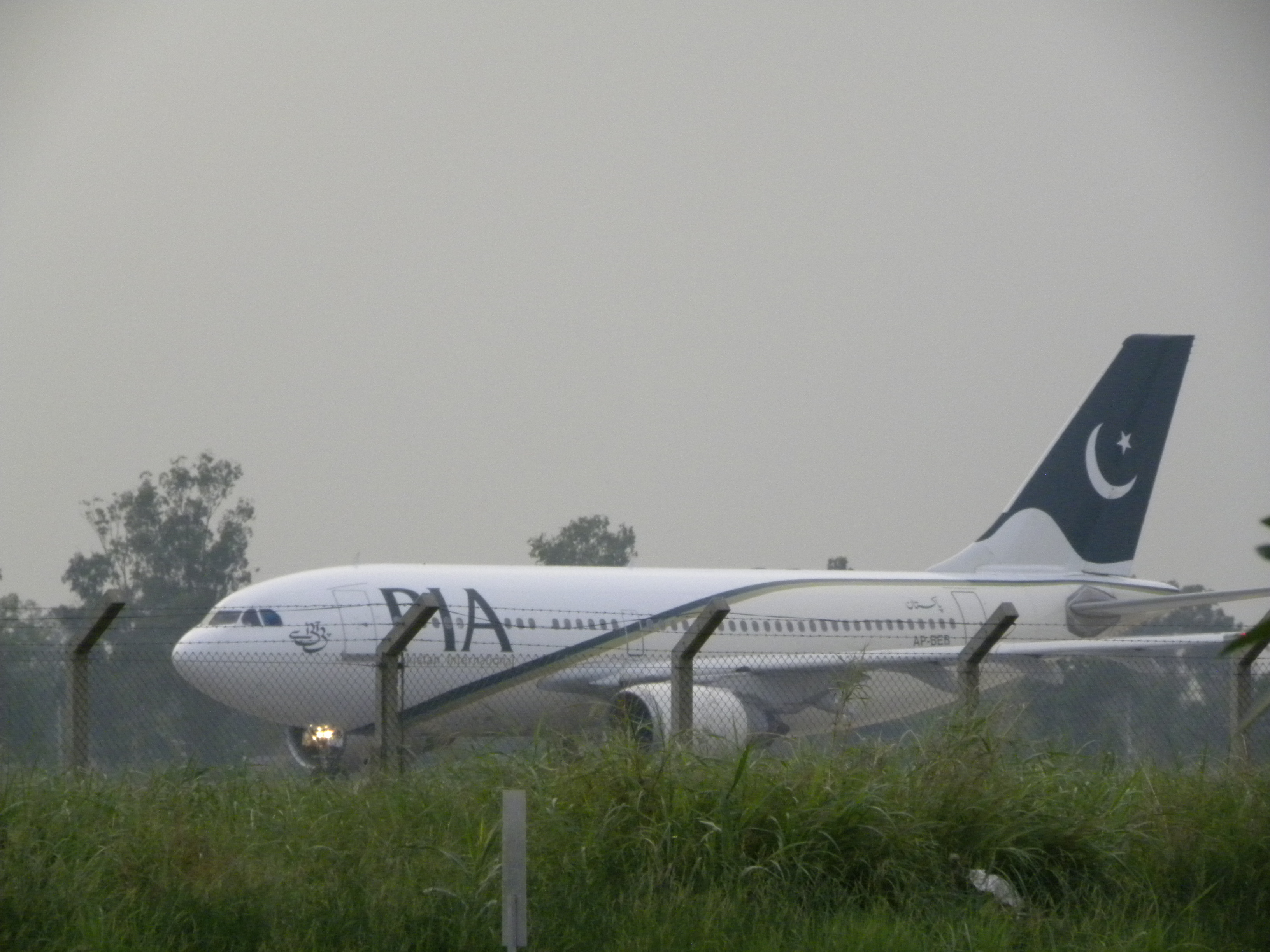 Photo of aircraft of PIA Airbus 310 departing.